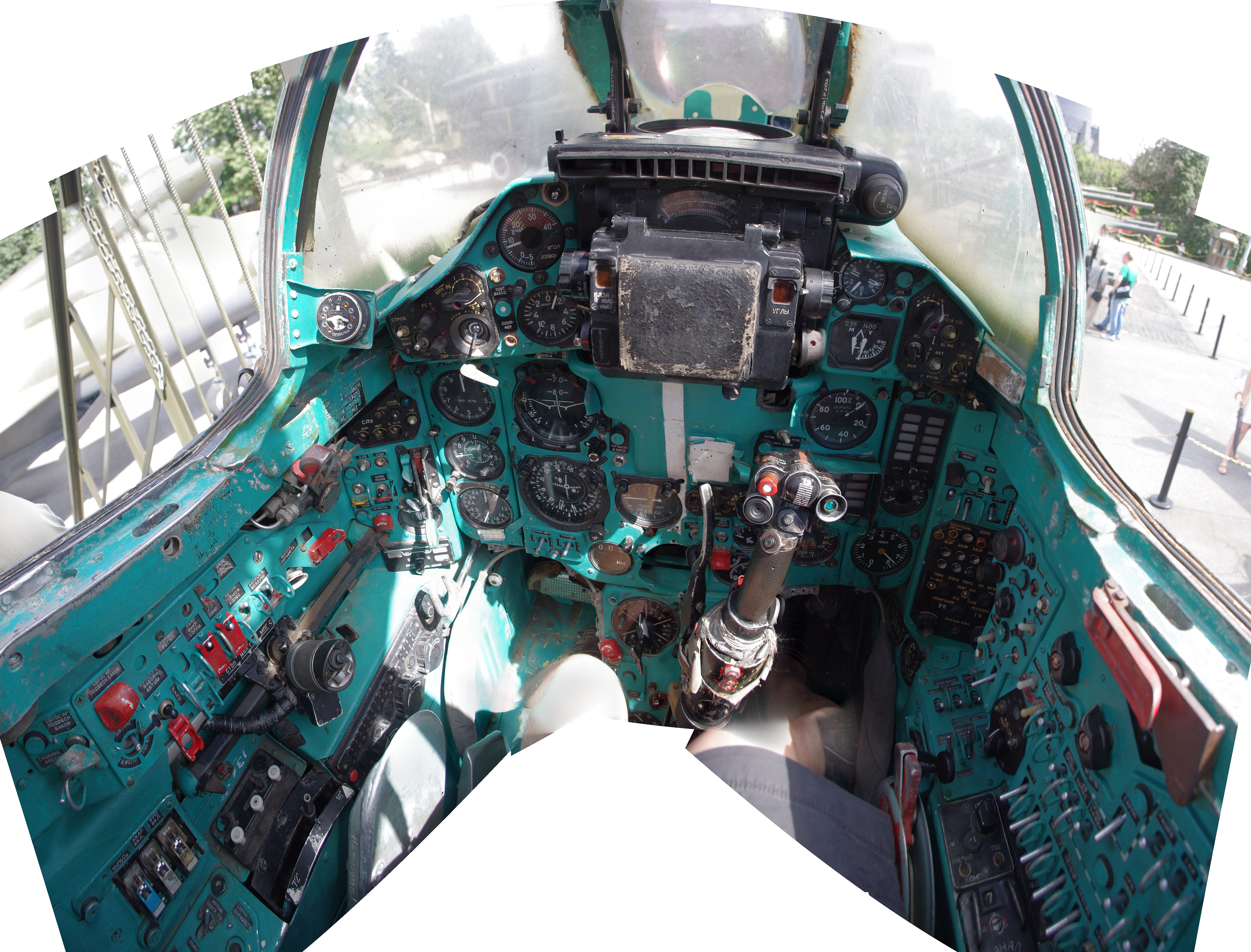 Cockpit of Soviet Mig 23 in high resolution. Picture is taken at Museum of the Great Patriotic War, Kiev.